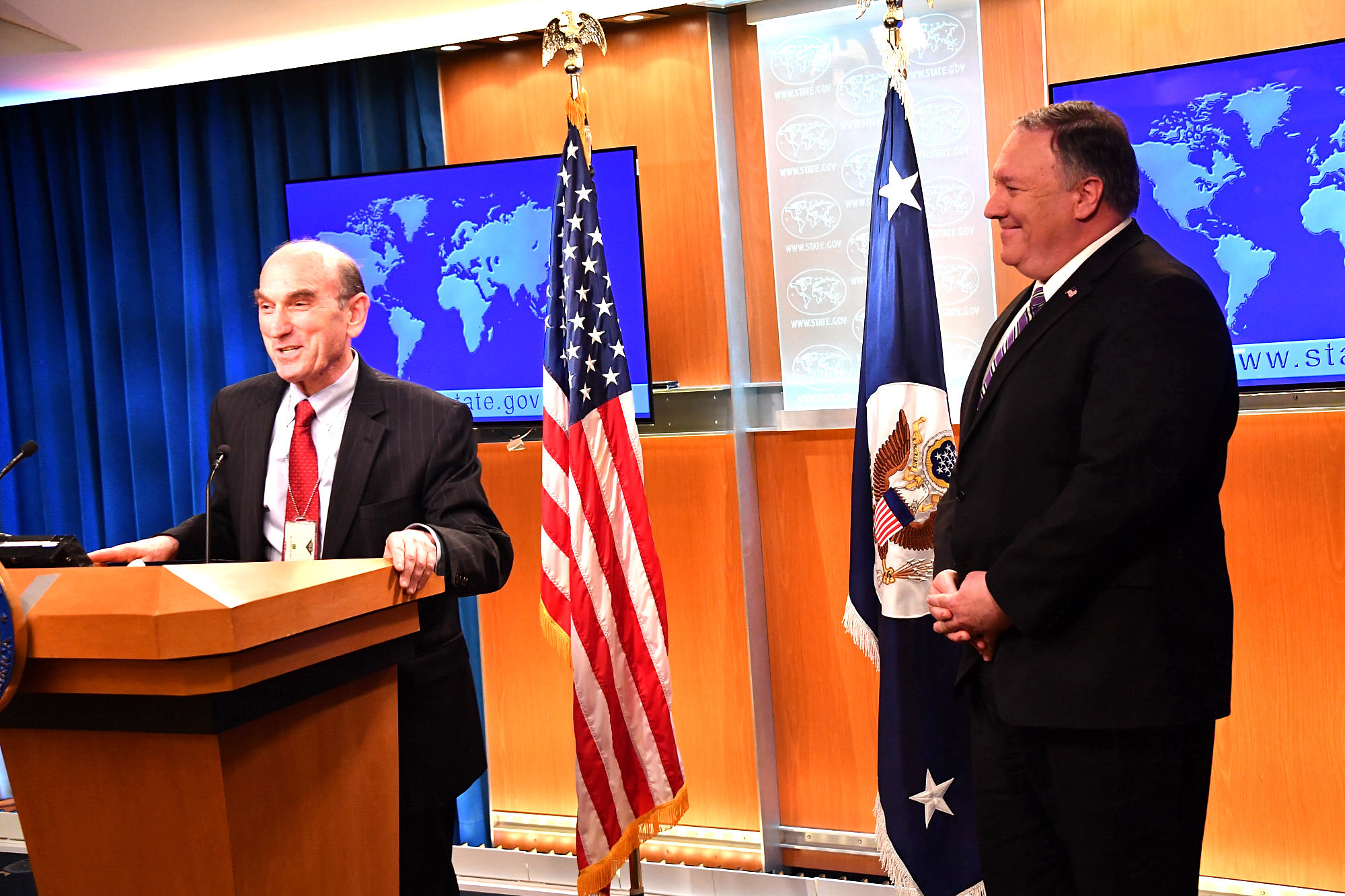 Elliott Abrams, with Secretary of State Michael R. Pompeo, delivers remarks to the media on Venezuela, at the Department of State, January 25, 2019. [State Department Photo / Public Domain]